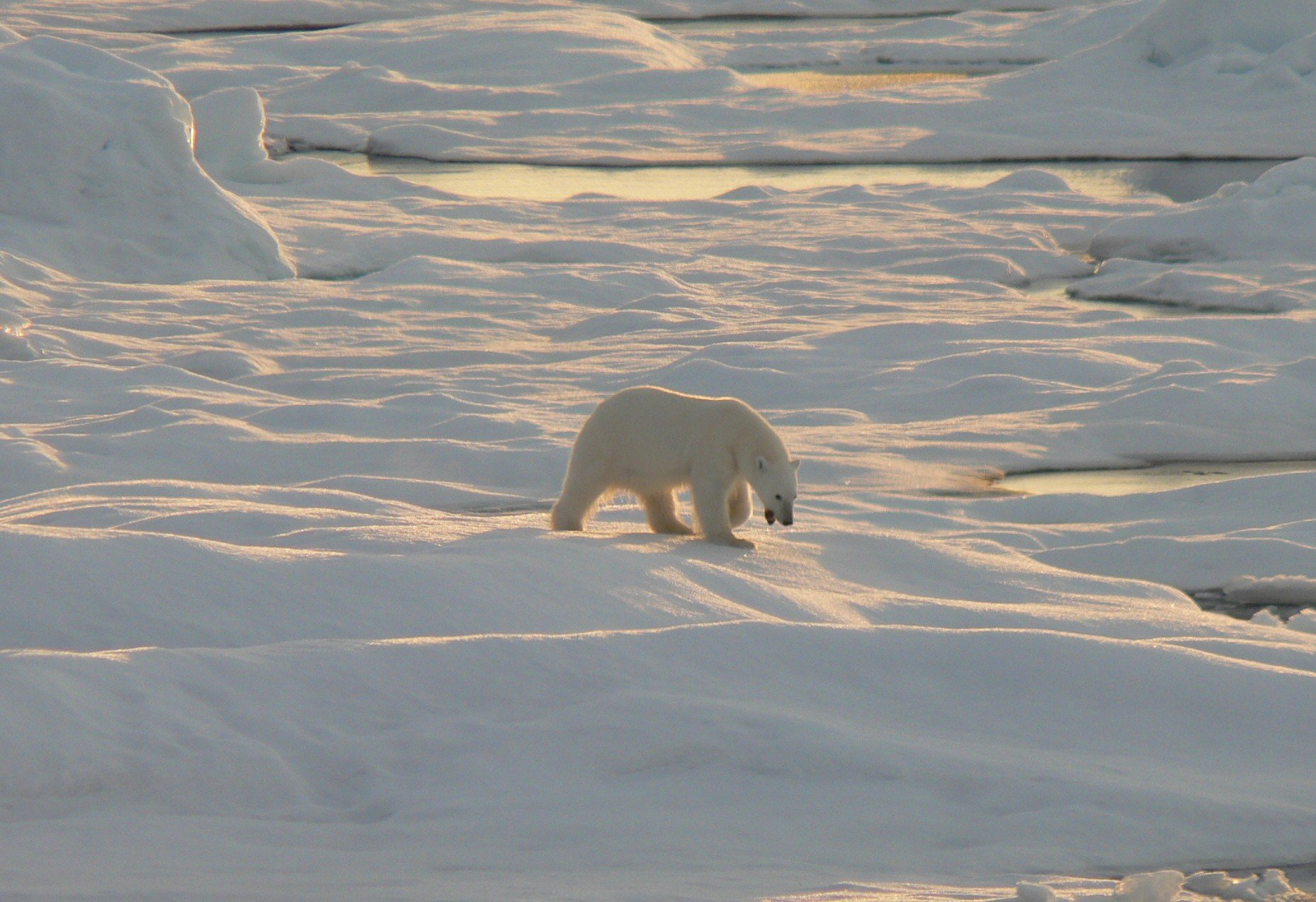 Polar bear on sea ice. Alaska, Beaufort Sea.